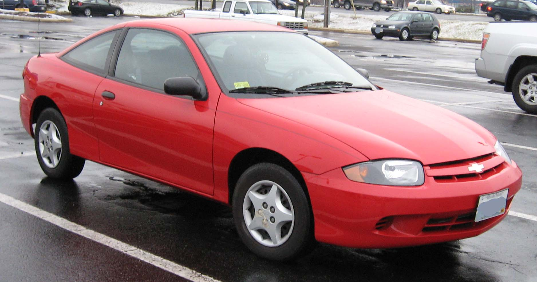 2003-2005 Chevrolet Cavalier photographed in USA.